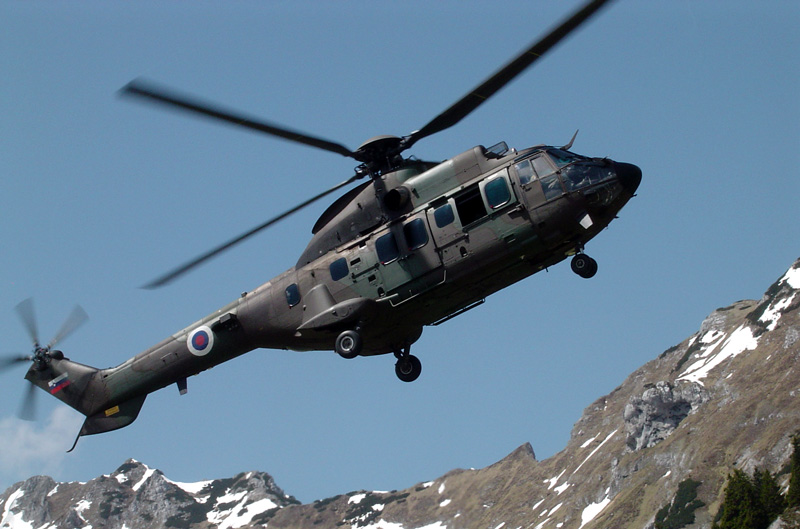 Military of Slovenia